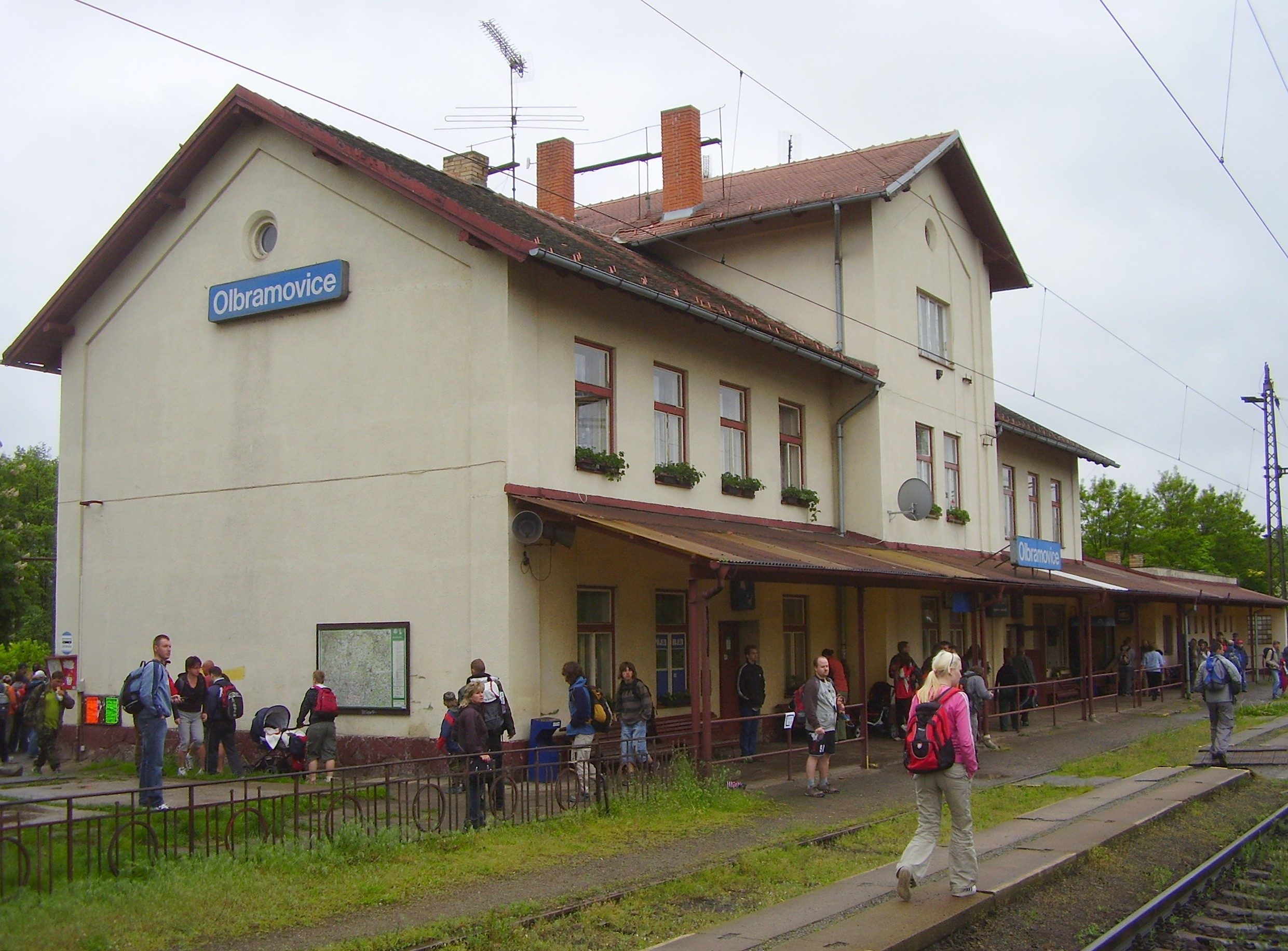 Olbramovice train station, Central Bohemian Region